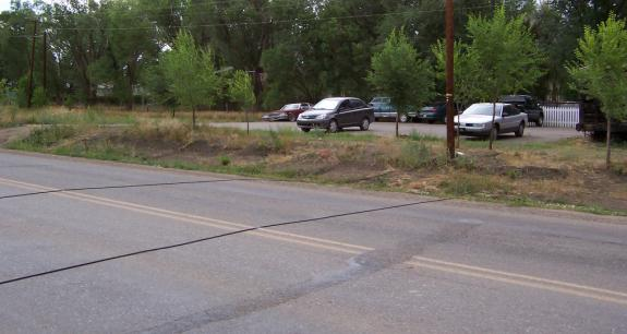 A traffic counter on BIA road J-9 located on Jicarilla Apache Nation lands